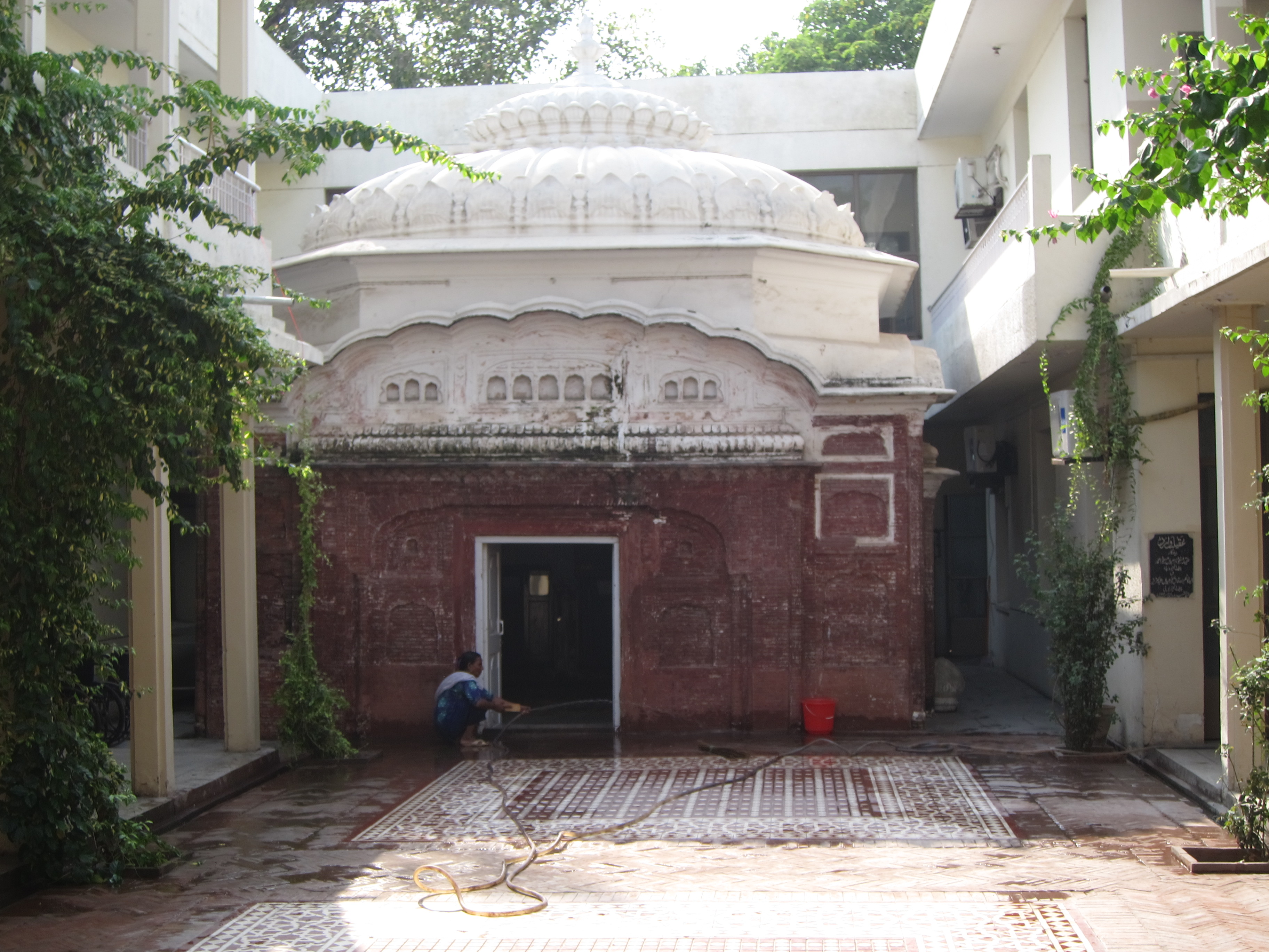 Chaubara of Chajju Bhagat This is a photo of a monument in Pakistan identified as the PB-P-93